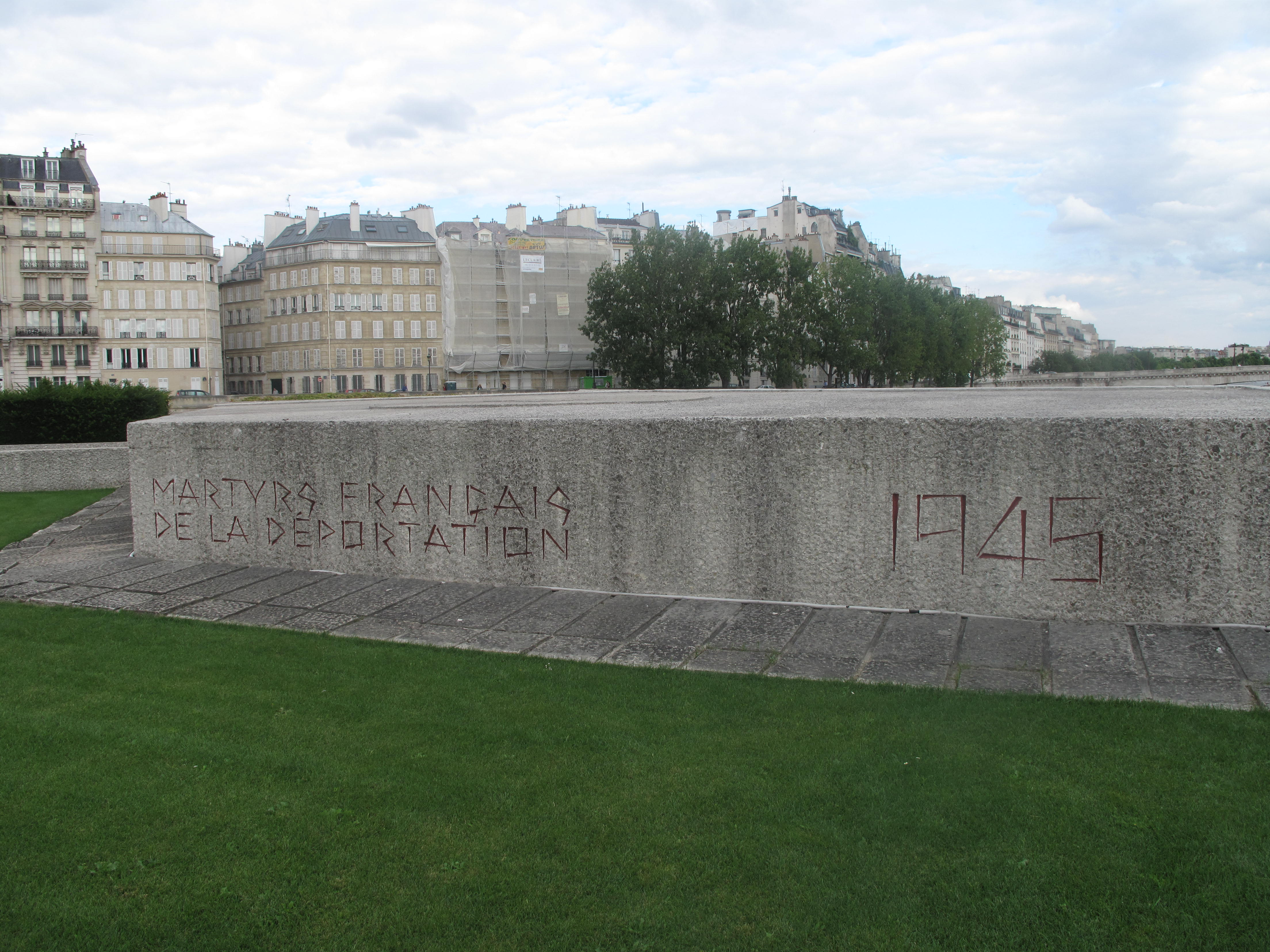 Border of the Memorial of the Martyrs of Deportation, Square de l'Île-de-France at the east end of the île de la Cité.